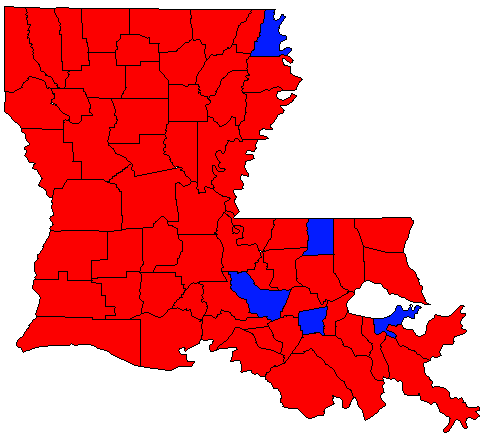 November 18, 1995 Louisiana Gubernatorial Runoff Election results by parish. [1] Red – Parishes in which candidate Mike Foster obtained a majority of the votes cast. Blue – Parishes in which candidate Cleo Fields obtained a of majority of the votes cast.